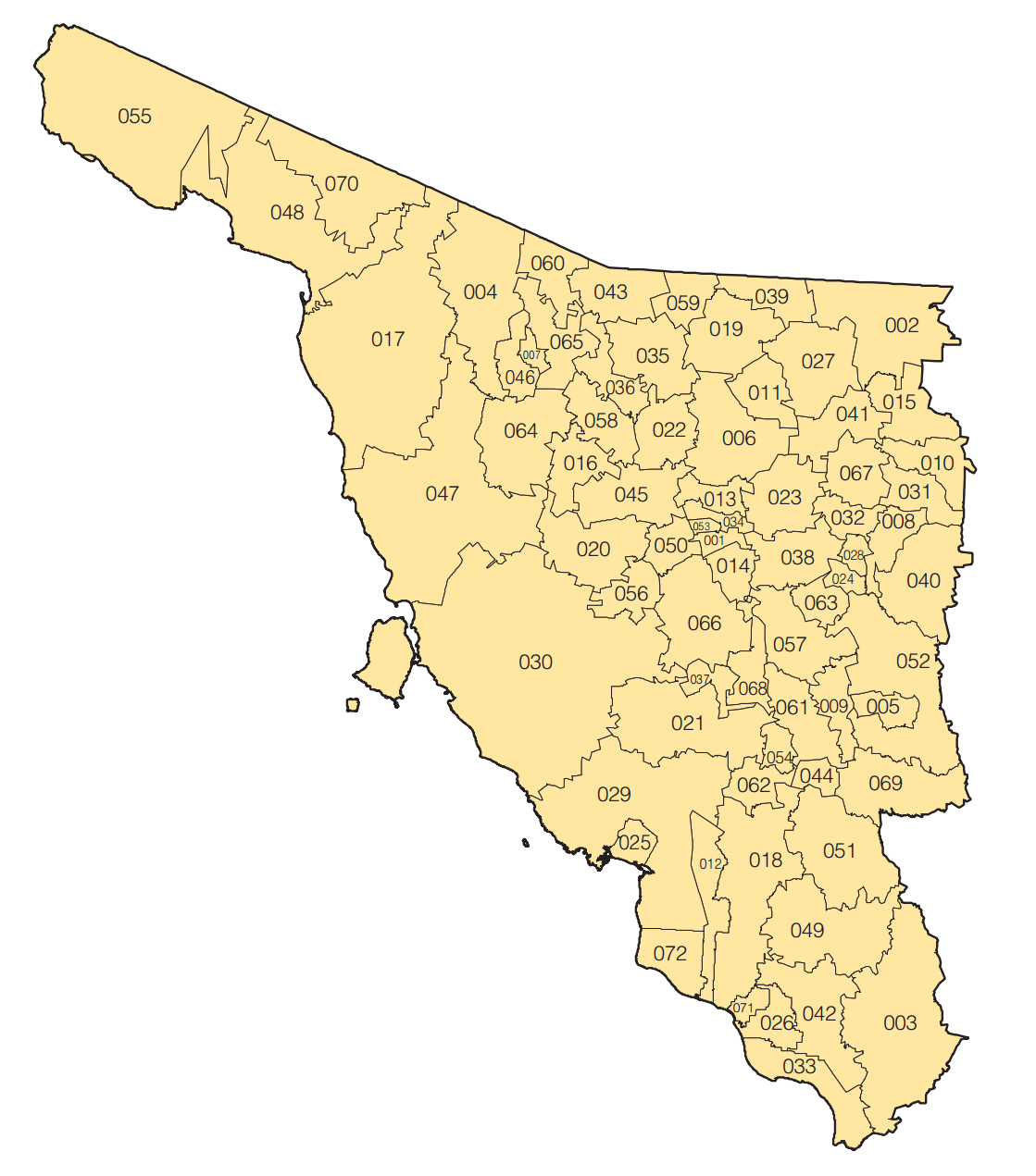 Map of the Municipalties of the State of Sonora, México.